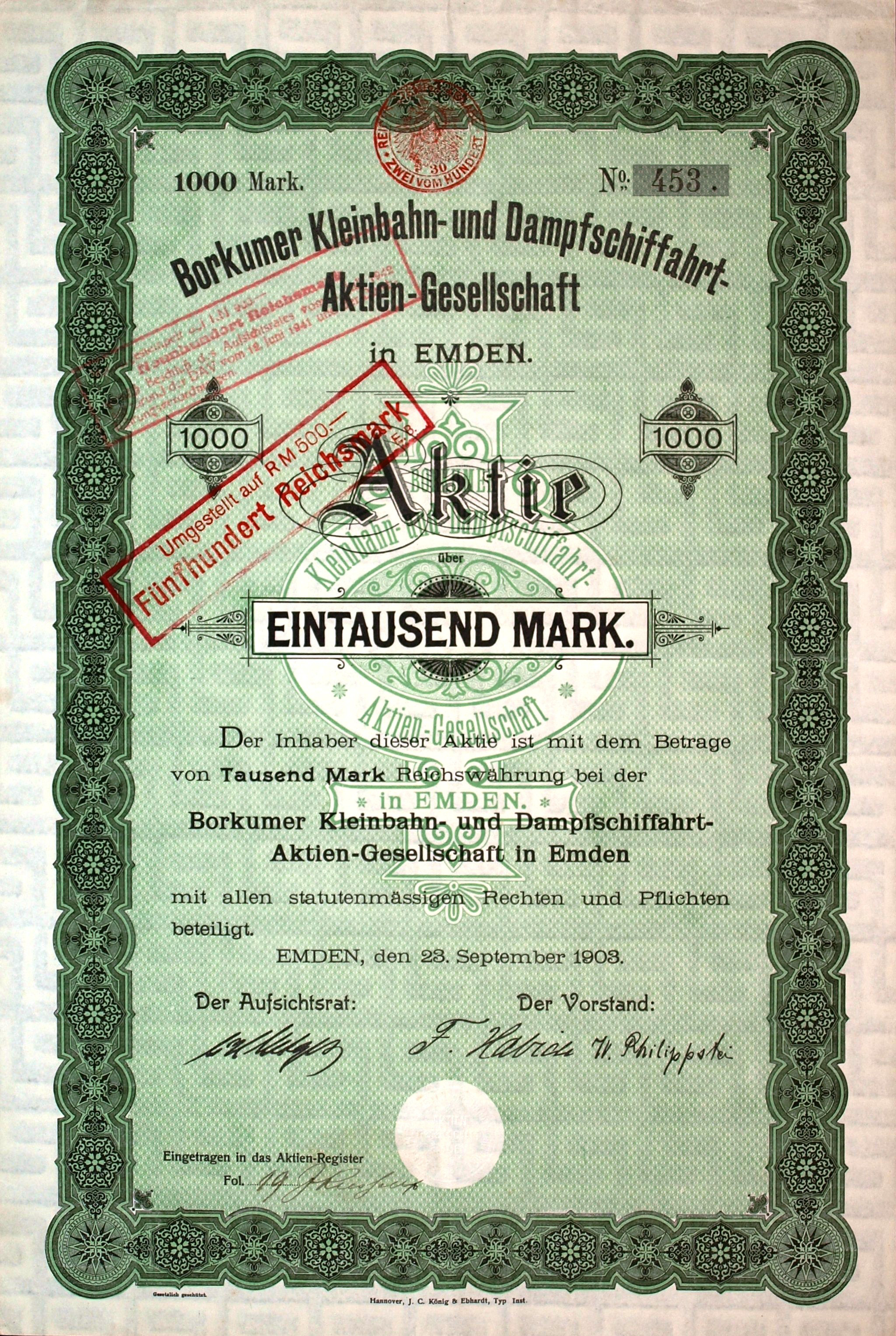 Borkumer Kleinbahn- und Dampfschiffahrt-AG, Aktie 1000 Mark, Gründeraktie vom 23. September 1903